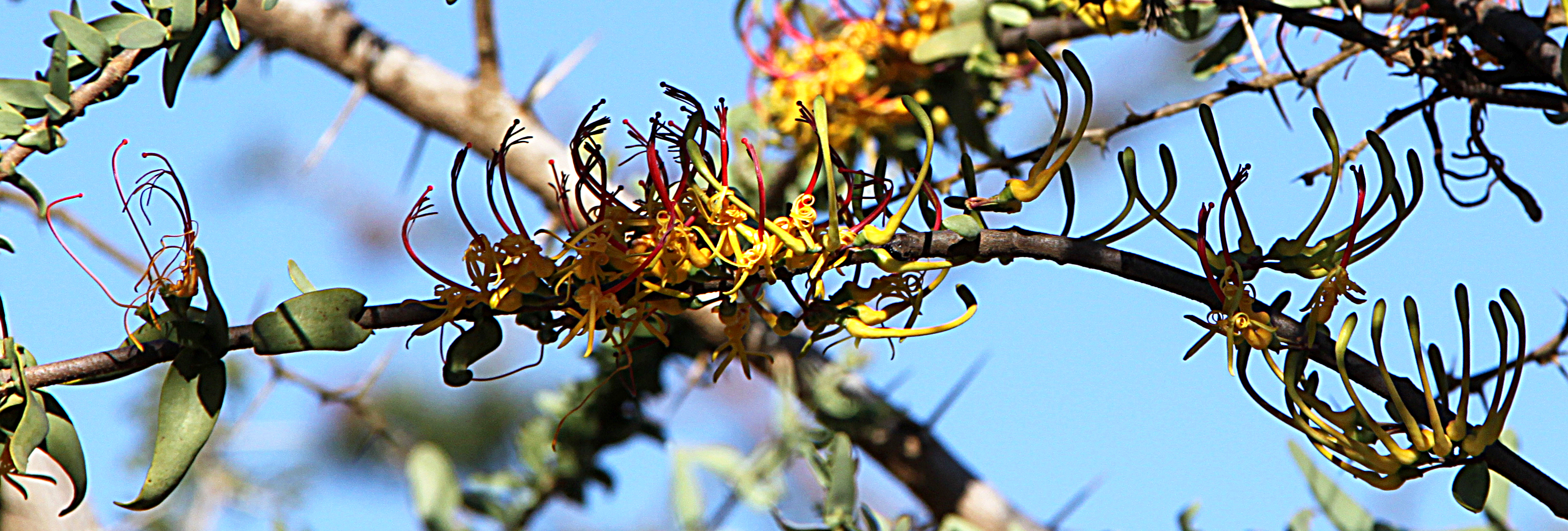 The showy mistletoe Plicosepalus sagittifolius, parasitising on Acacia drepanolobium, photographed along the Nairobi-Mombasa road, in Makueni County